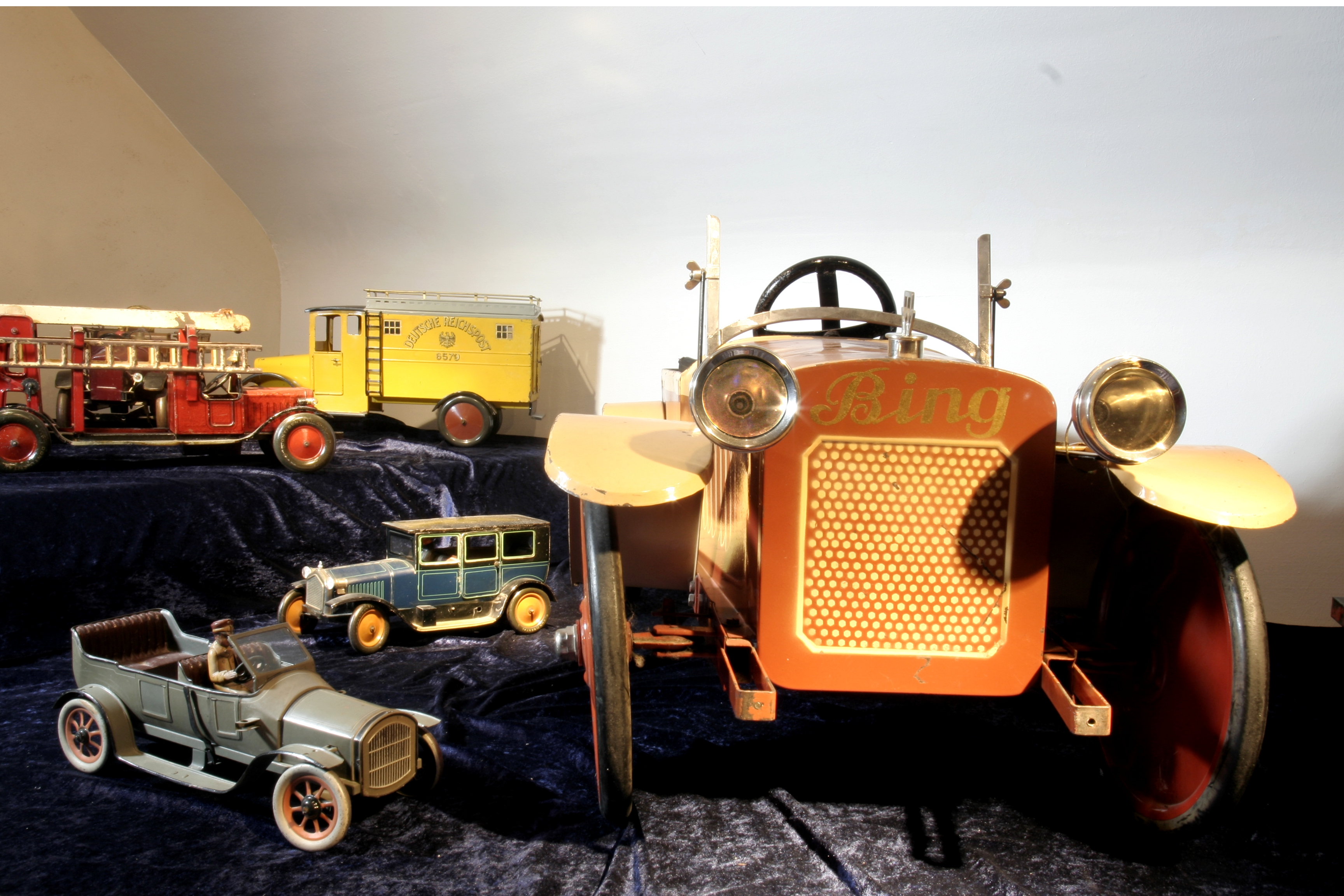 insight of tin toy museum Freinsheim/Germany